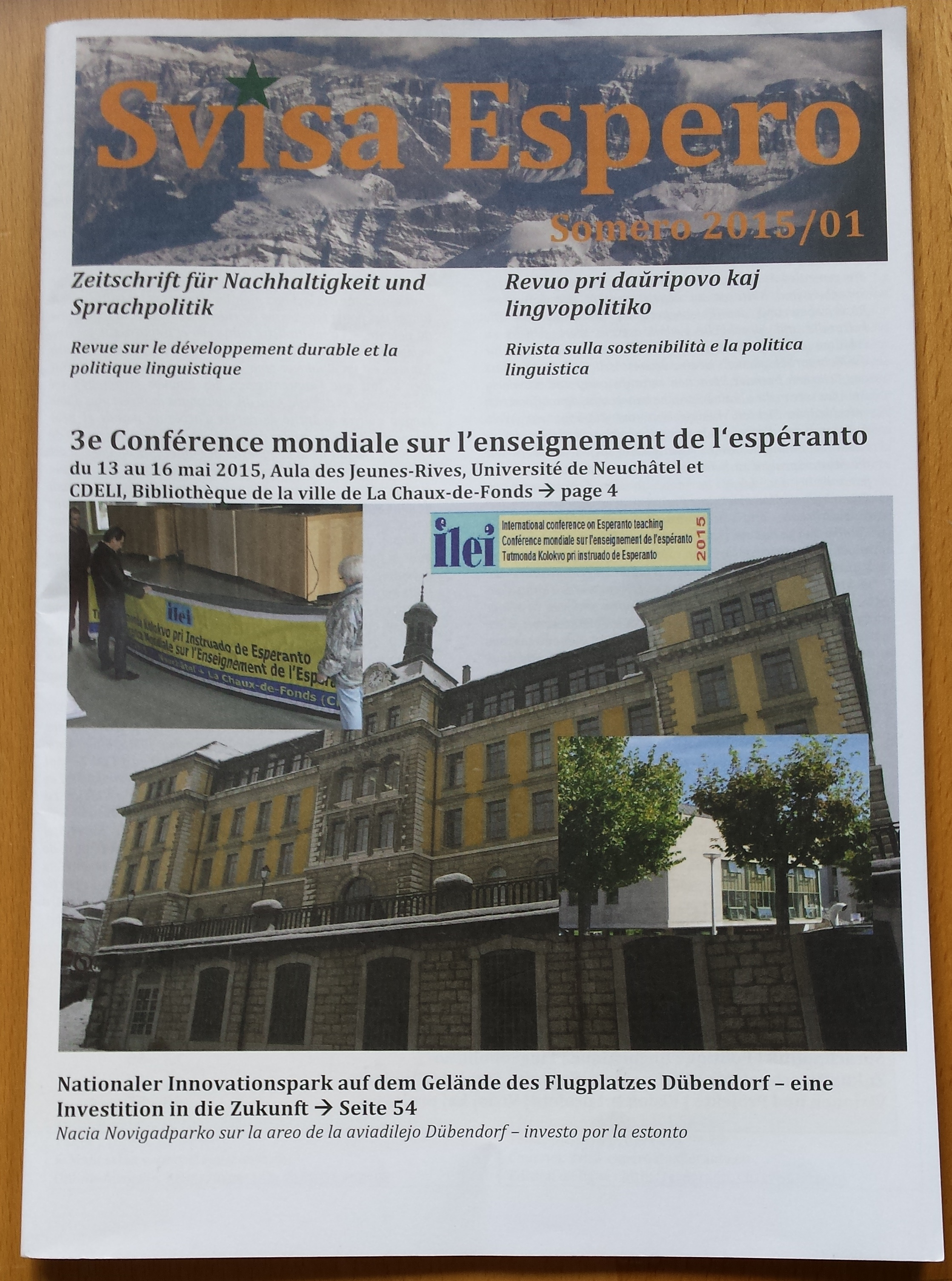 Cover of Svisa Espero 1/2015